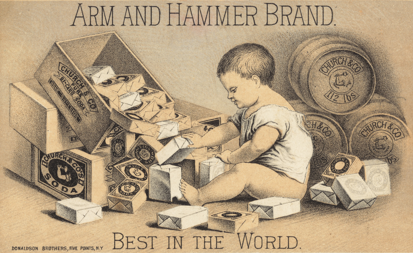 File name: 10_03_000308a Binder label: Baking Title: Arm and Hammer brand. Best in the world. [front] Created/Published: Five Points, N. Y. : Donaldson Brothers Date issued: 1870 - 1900 (approximate) Physical description: 1 print : chromolithograph ; 8 x 13 cm. Genre: Advertising cards Subject: Infants; Barrels; Food Notes: Title from item. Handwritten on verso: Millie Etchells, Biddeford, Maine, March 13, 1879. Collection: 19th Century American Trade Cards Location: Boston Public Library, Print Department Rights: No known restrictions.